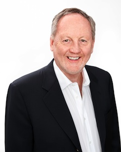 This is a portrait of Michael Fullan.